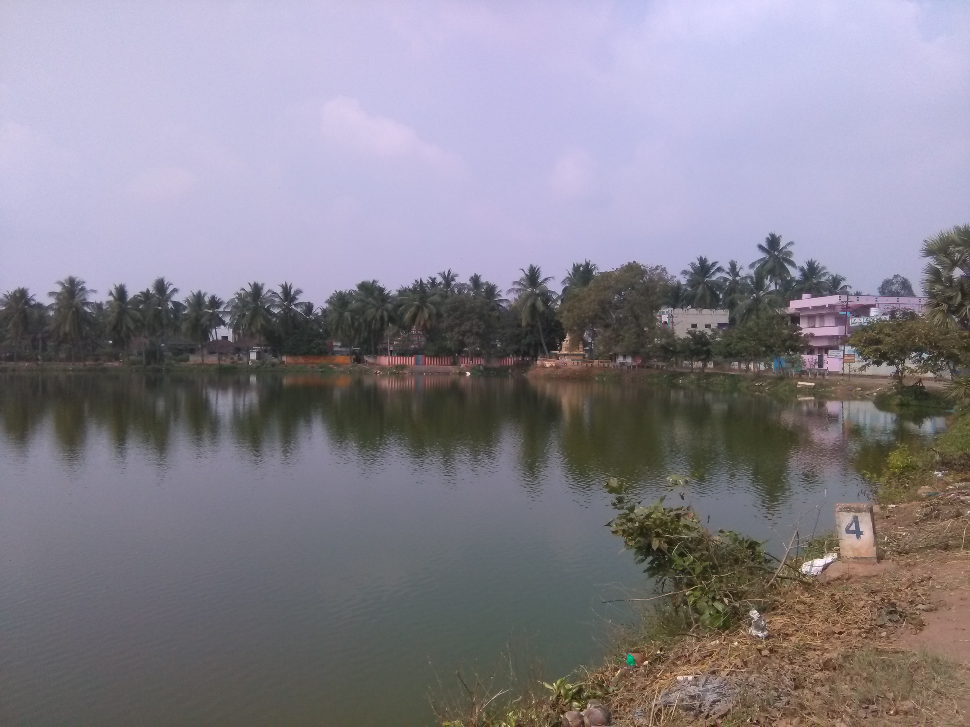 A.P Village Chikkala of Nidadavolu Mandal (2)